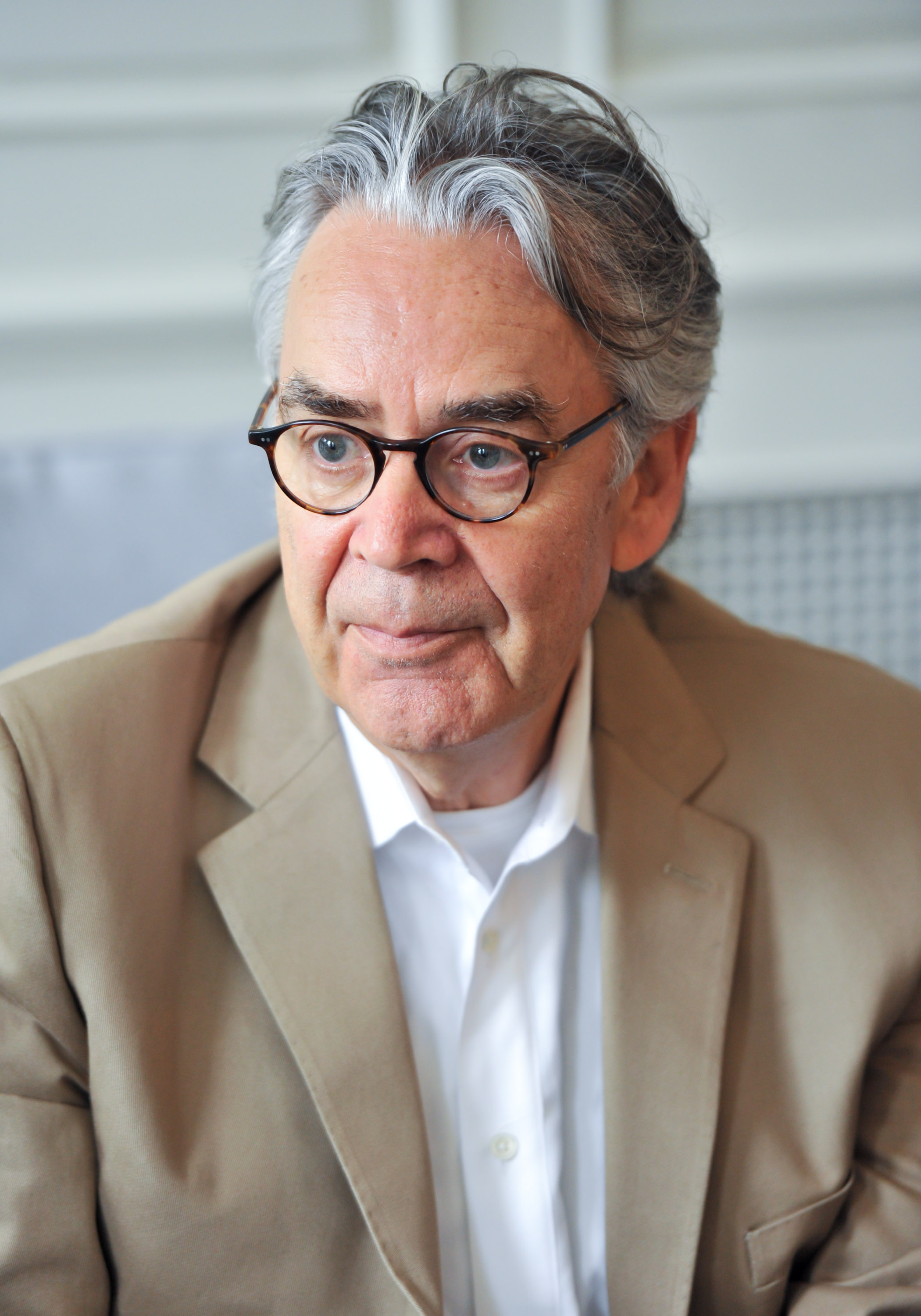 CFC and The Slaight Family Music Lab welcomed three time Academy Award®-winning composer Howard Shore for a master class at CFC, followed by a special celebration of his extraordinary body of work at TIFF Bell Lightbox. An acclaimed composer and orchestrator, Shore has scored some of cinema's most lauded films, as well as some of Hollywood's biggest blockbusters, including: The Lord of the Rings trilogy, Hugo, The Silence of the Lambs, The Fly, and Eastern Promises.